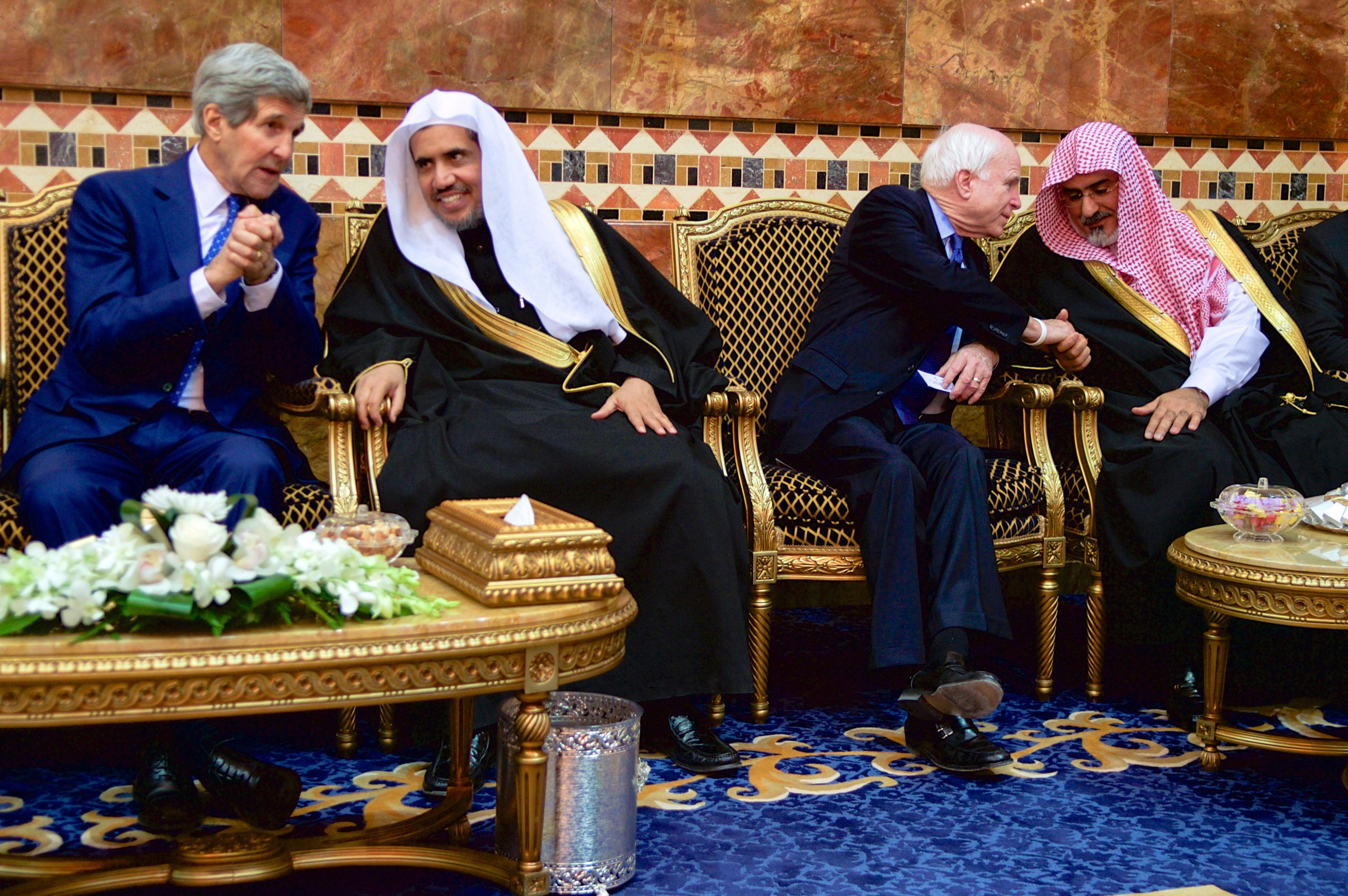 U.S. Secretary of State John Kerry and U.S. Senator John McCain of Arizona chat with members of the Saudi Royal Family after greeting the new King Salman of Saudi Arabia at the Erqa Royal Palace in Riyadh, Saudi Arabia, on January 27, 2015, and after joining President Obama, First Lady Michelle Obama, and other dignitaries in extending condolences to the late King Abdullah. [State Department photo/ Public Domain]